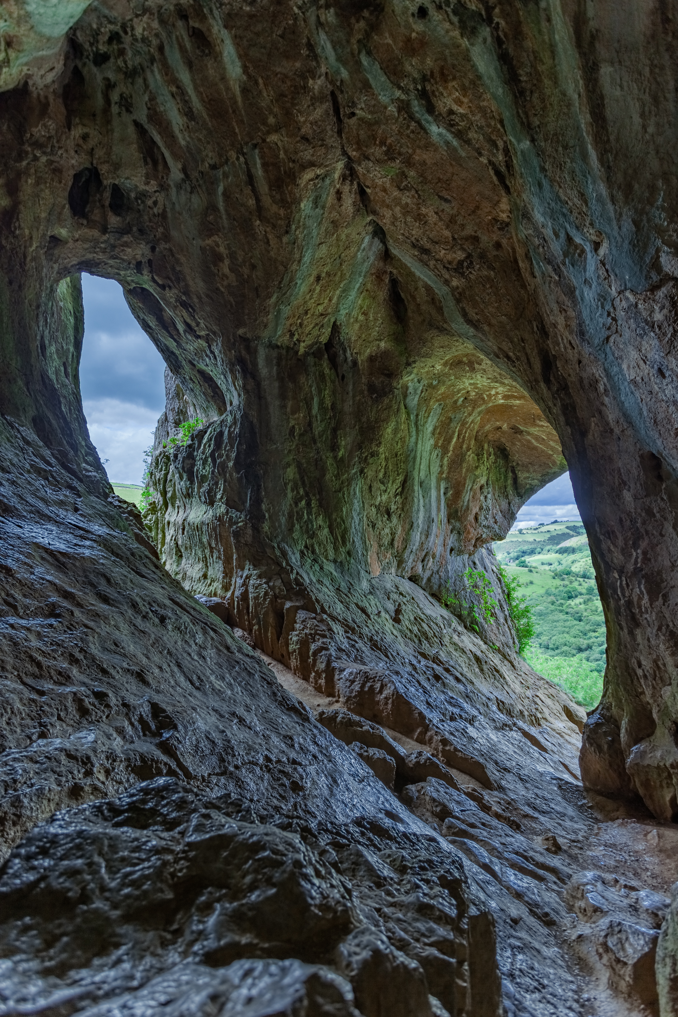 this is a HDR image that shows the cave's sculptured interior